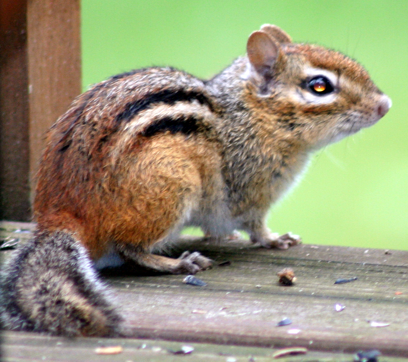 Eastern Chipmunk Tamias striatus.